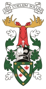 Green and white coat of arms with a bishops mitre, crosses, maple leaves and buckles. On top is a red moose head with gold antlres and white cross on its neck.